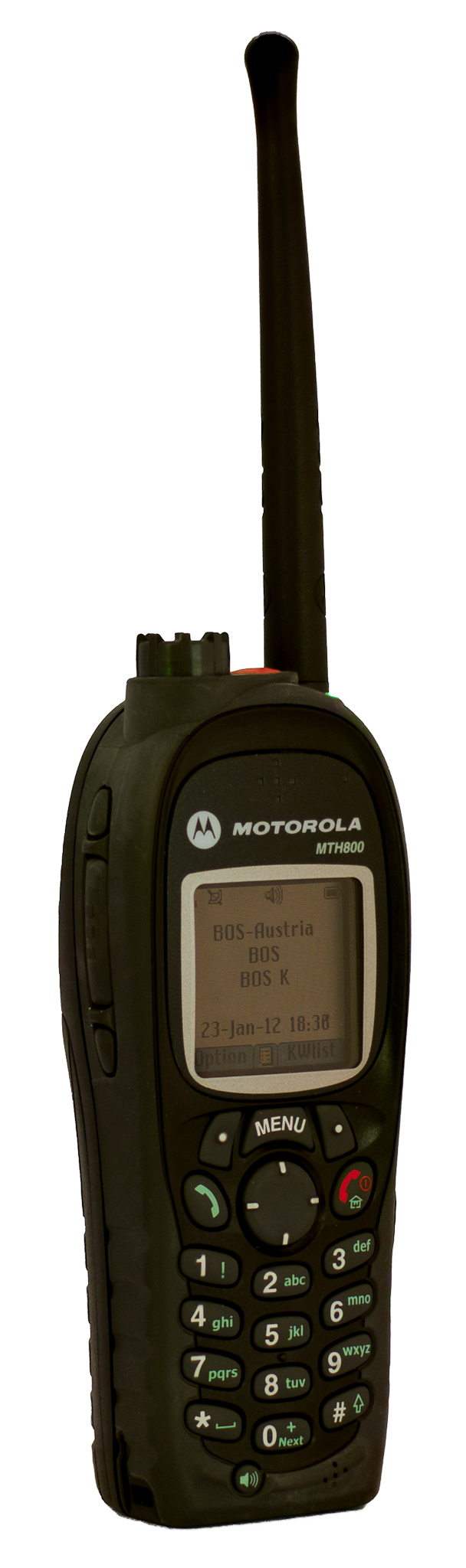 Motorola MTH800 TETRA radio registered in the BOS-Austria Network